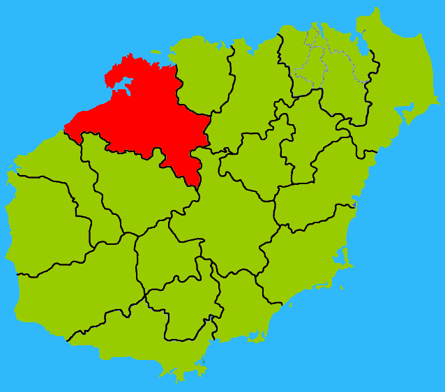 Hainan subdivisions - Danzhou